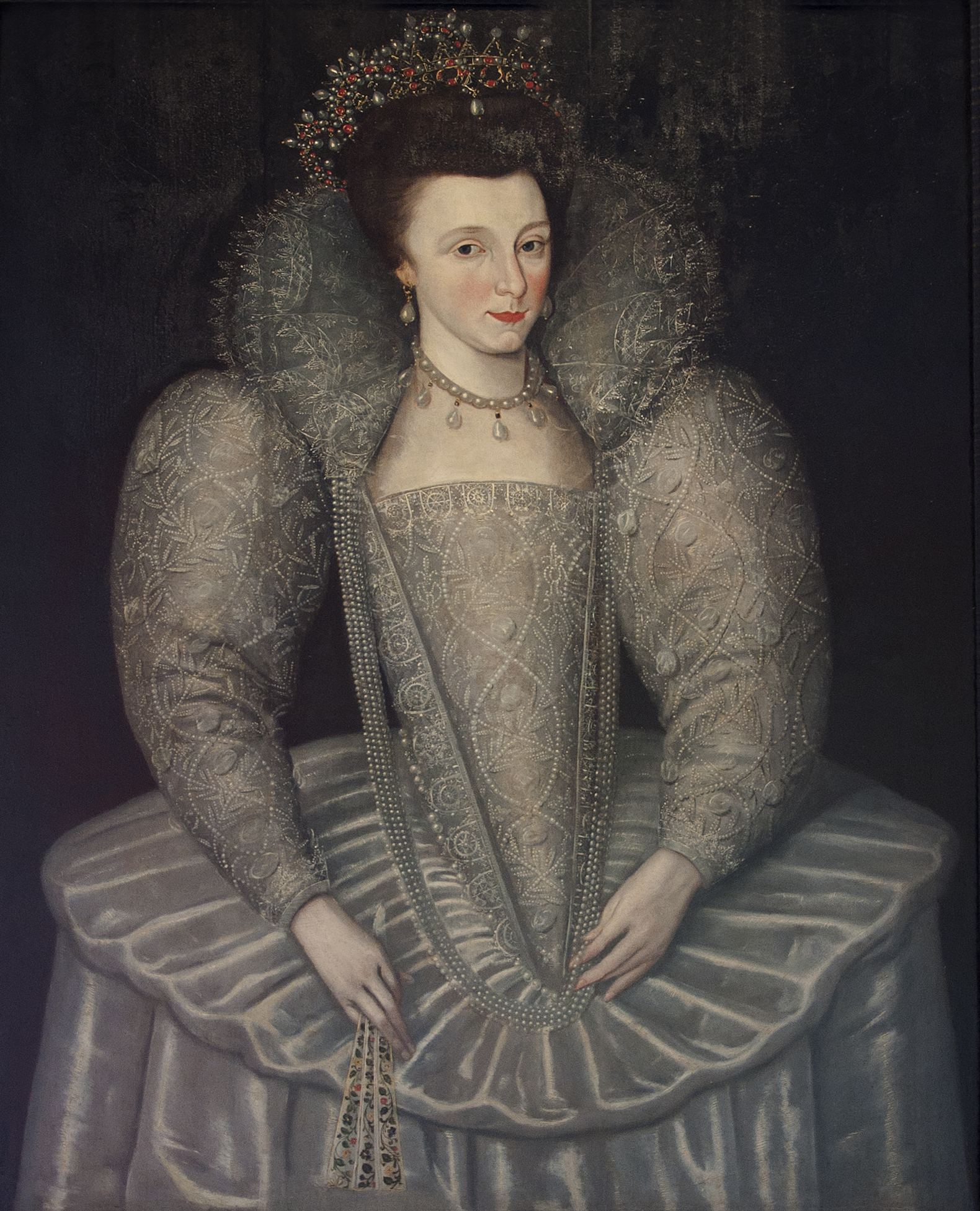 Marcus Gerards de Jonge (1561of62-1636) - Unknown lady - Leeds Castle